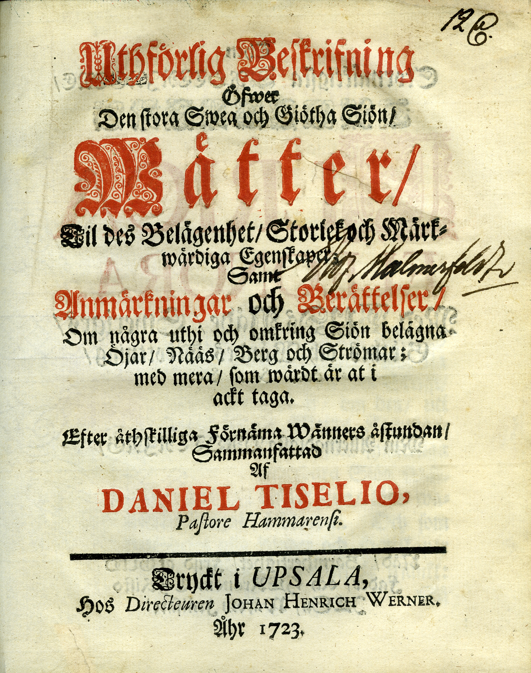 An old book printed 1723 in Uppsala about the Lake Vättern in Sweden.